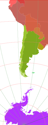 Fragment of a political map of the world in transverse Mercator projection around longitude 70 degrees west.